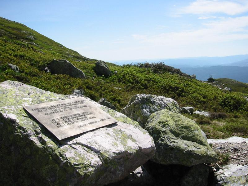 Memorial plaque whith a poem by Aslaug Høydal. Skorve Mountain, Seljord, Norway. In honor of the 11 american airmen who lost their lives in a plane crash here Sept. 9th 1944. The Norwegian inscription reads: "9. september 1944 styrta eit amerikansk fly på veg til Hønefosstraktene. Flyet hadde med forsyninger til heimestyrkane." Followed by the poem: "Kvil i fred i Noregs jord. Kvili fred der lyngen gror. Kvil i fred i mosamyr. Kvil i fred til dagen gryr." March 31st 1947, The Saturday Evening Post printed the poem in